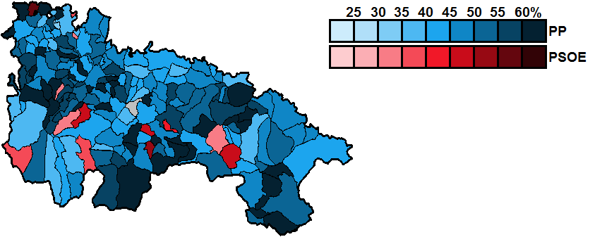 Most-voted party in La Rioja municipalities, showing vote share obtained, in the Spanish general election, 2016.